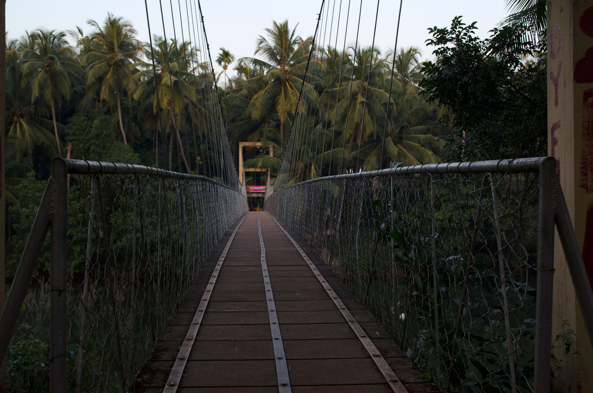 Picture of hanging bridge in peralasseery built across mambaram river